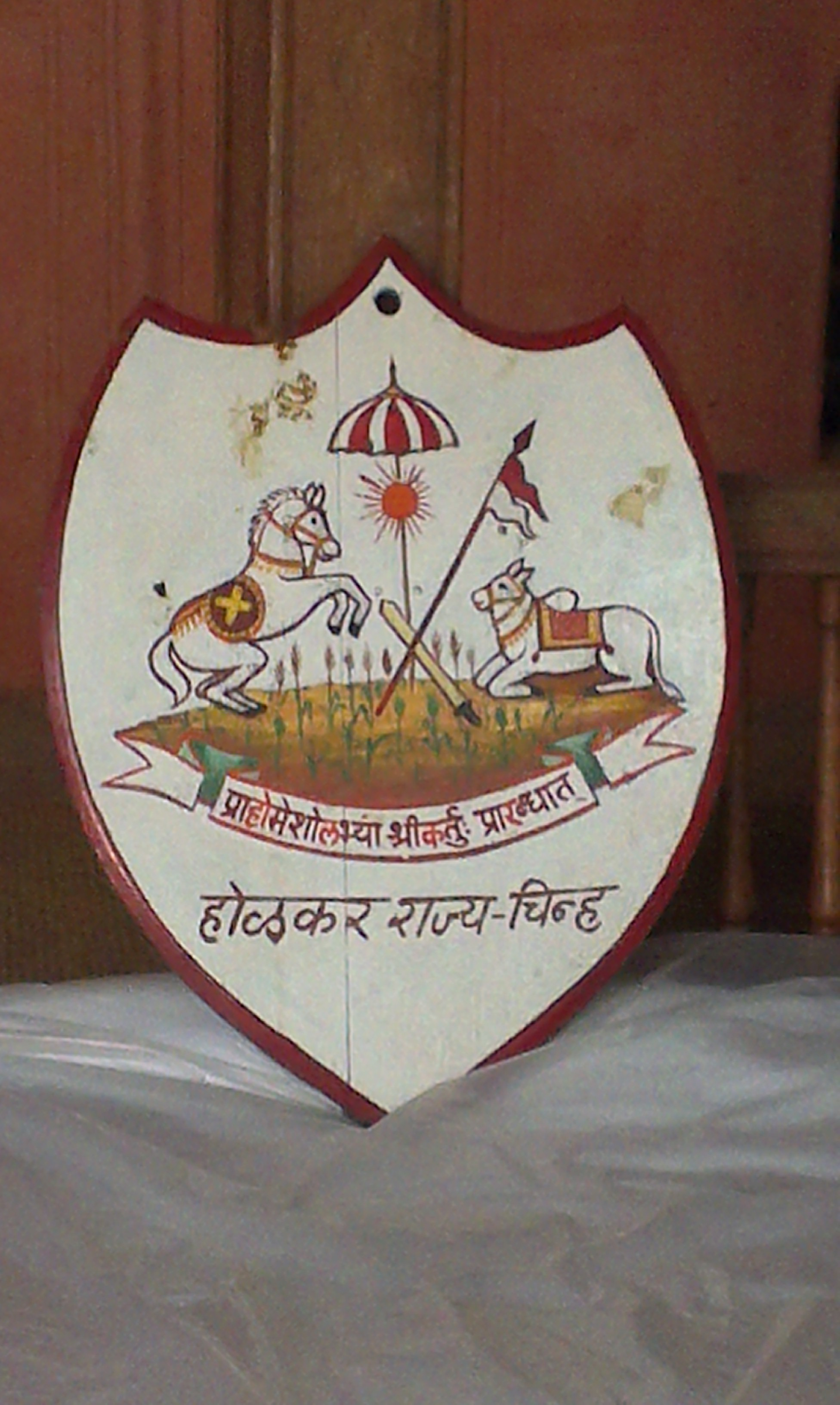 Symbol of holkars